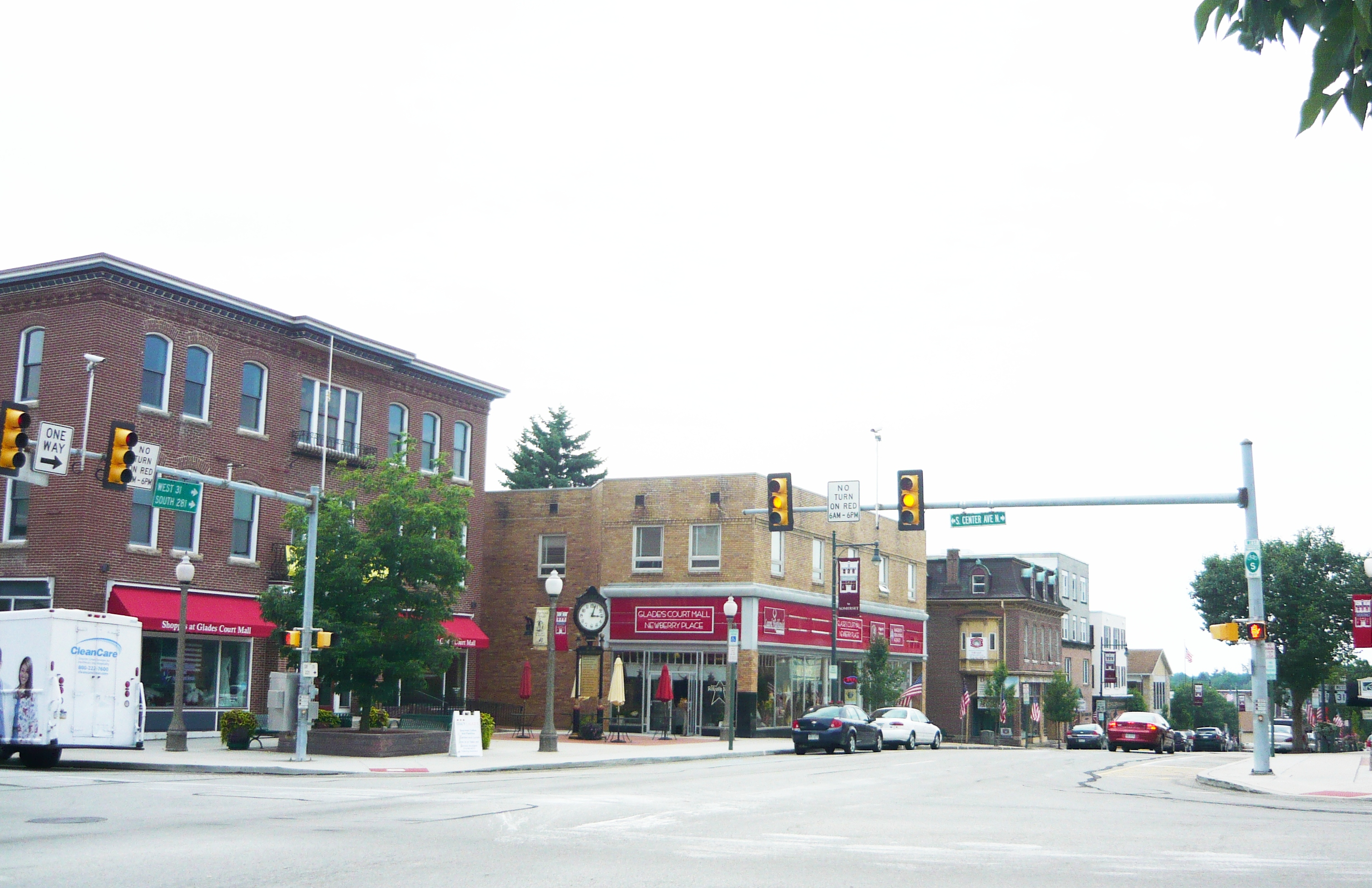 West Main Street (looking westward from Center Avenue), Somerset, Somerset County, Pennsylvania.